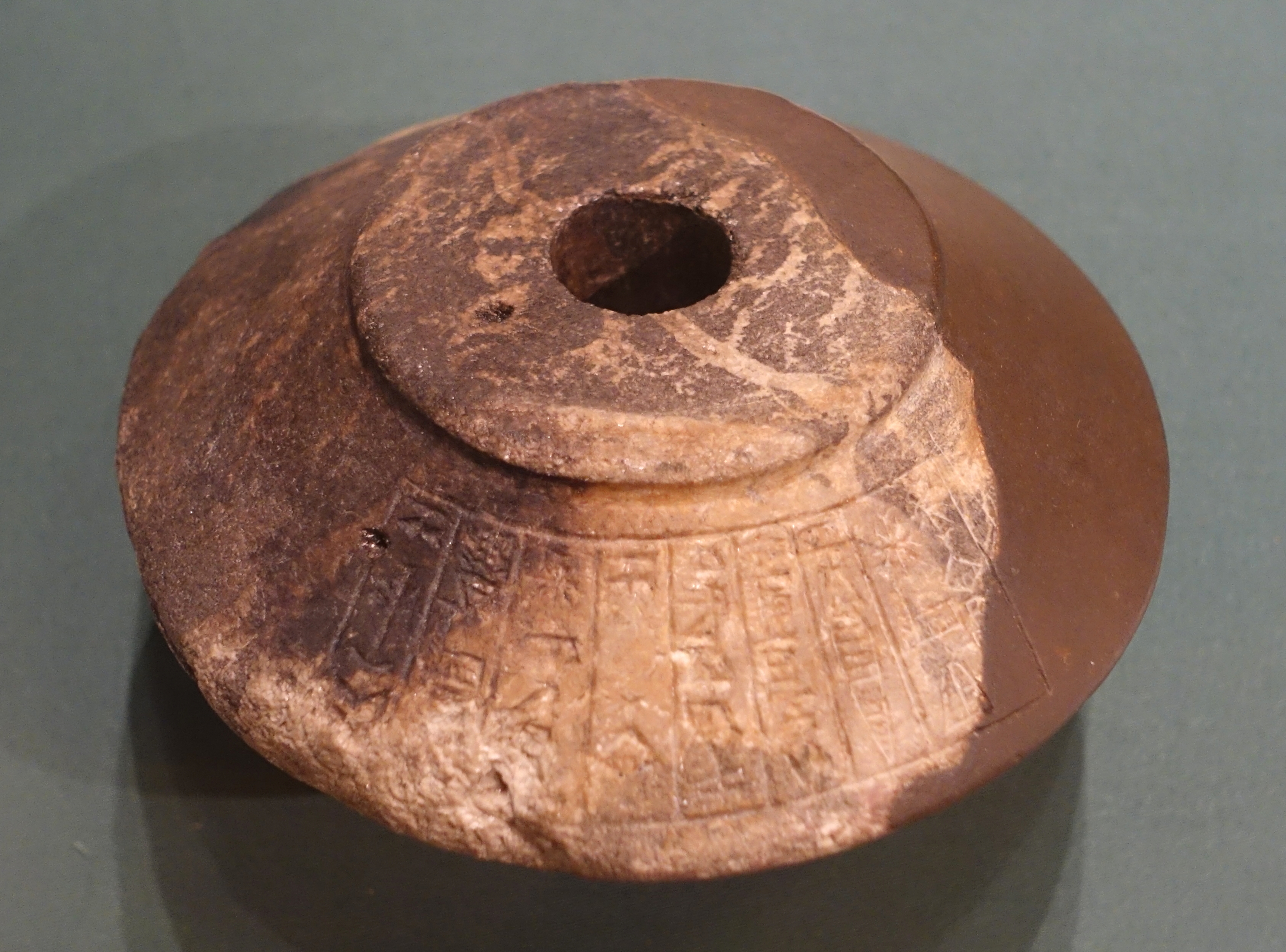 Exhibit in the Oriental Institute Museum, University of Chicago, Chicago, Illinois, USA. This work is old enough so that it is in the public domain. Translation: "Naram-Sin, king of the four quarters, dedicated (this mace) to the goddess Ishtar at Nippur".